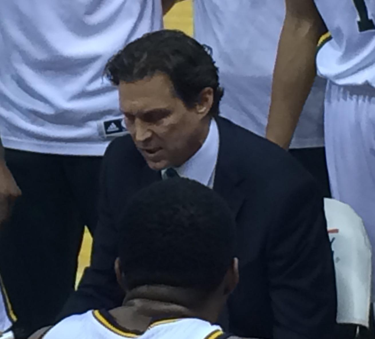 Quin Snyder coaching at Utah Jazz game.